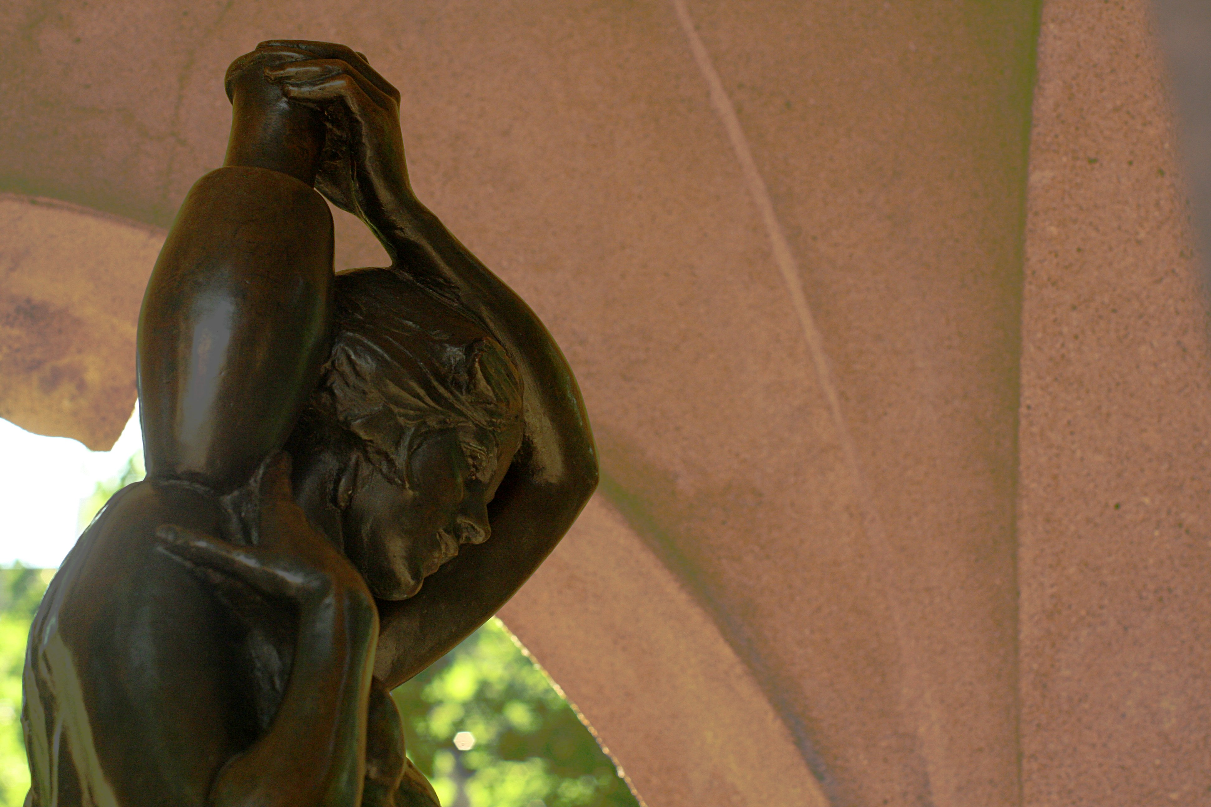 Shemanski Fountain, Portland, Oregon (2008)